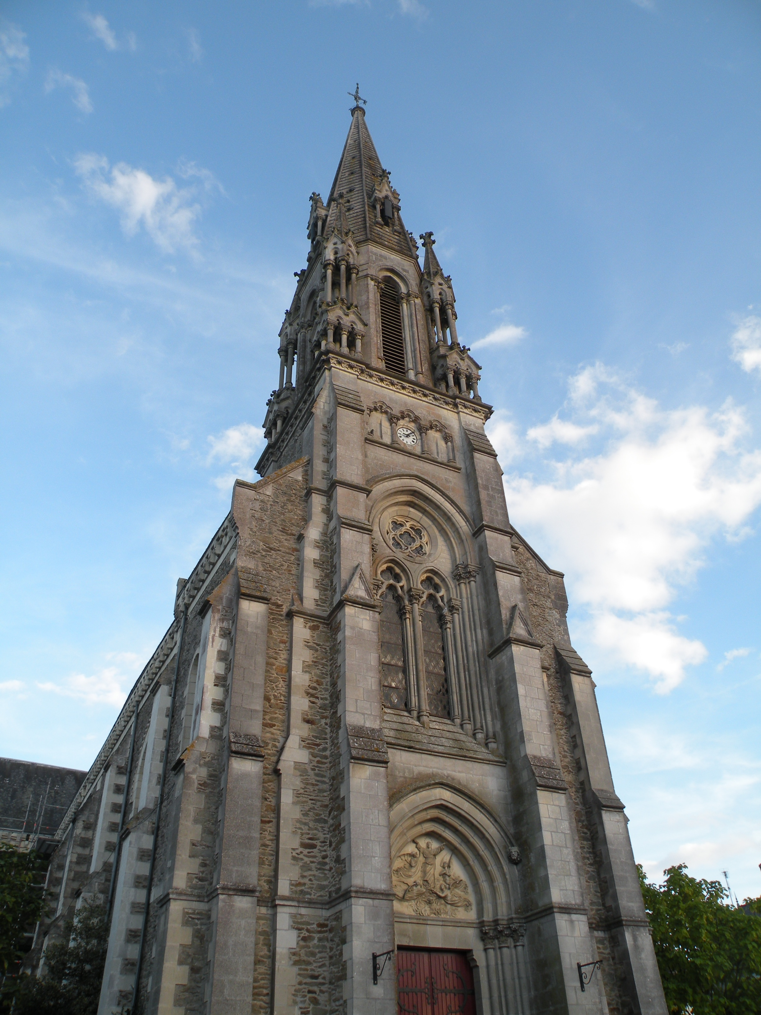 Belltower of the church of Grandchamp-des-Fontaines.